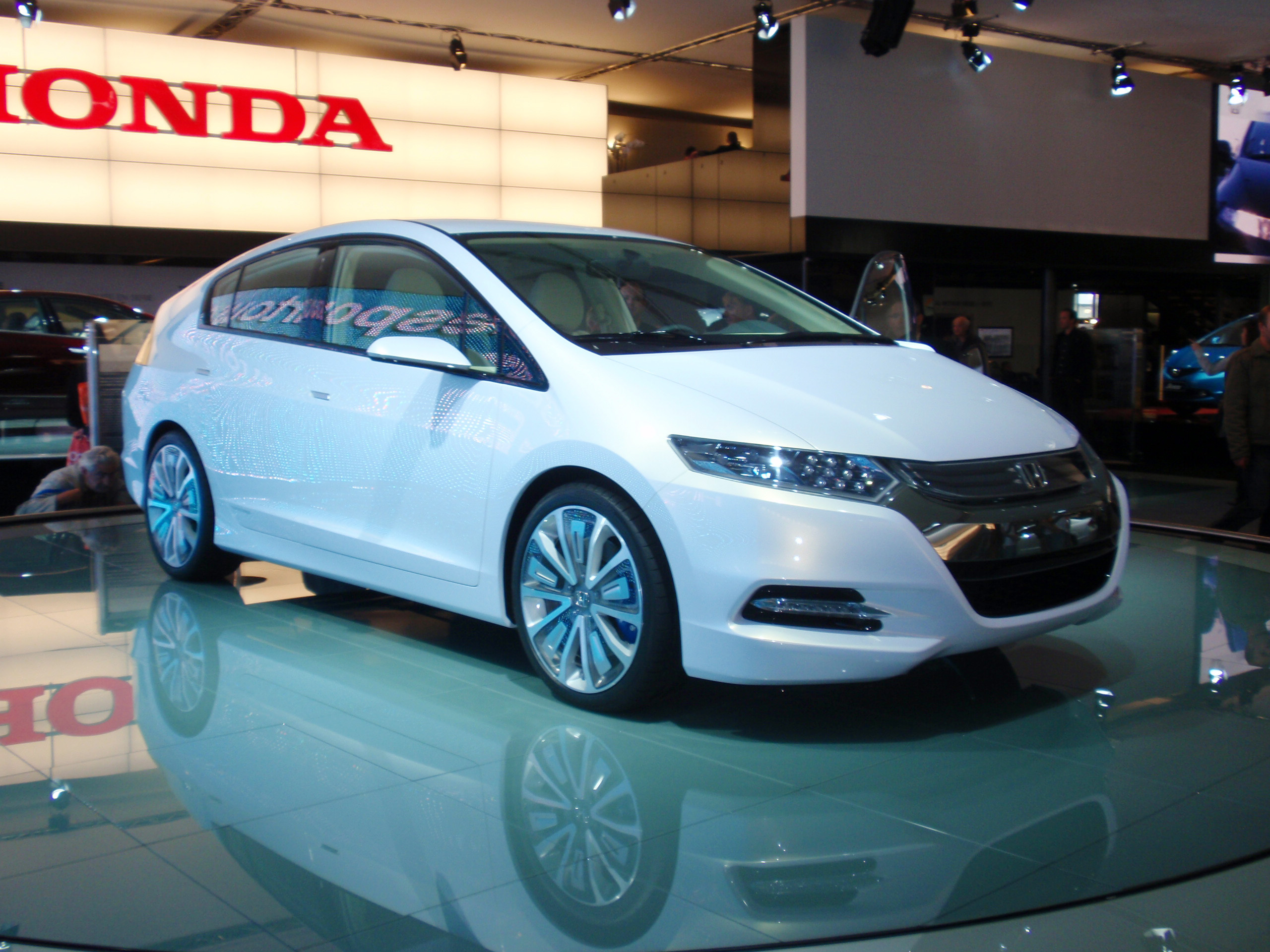 Honda Insight Concept at the 2008 Paris Motor Show